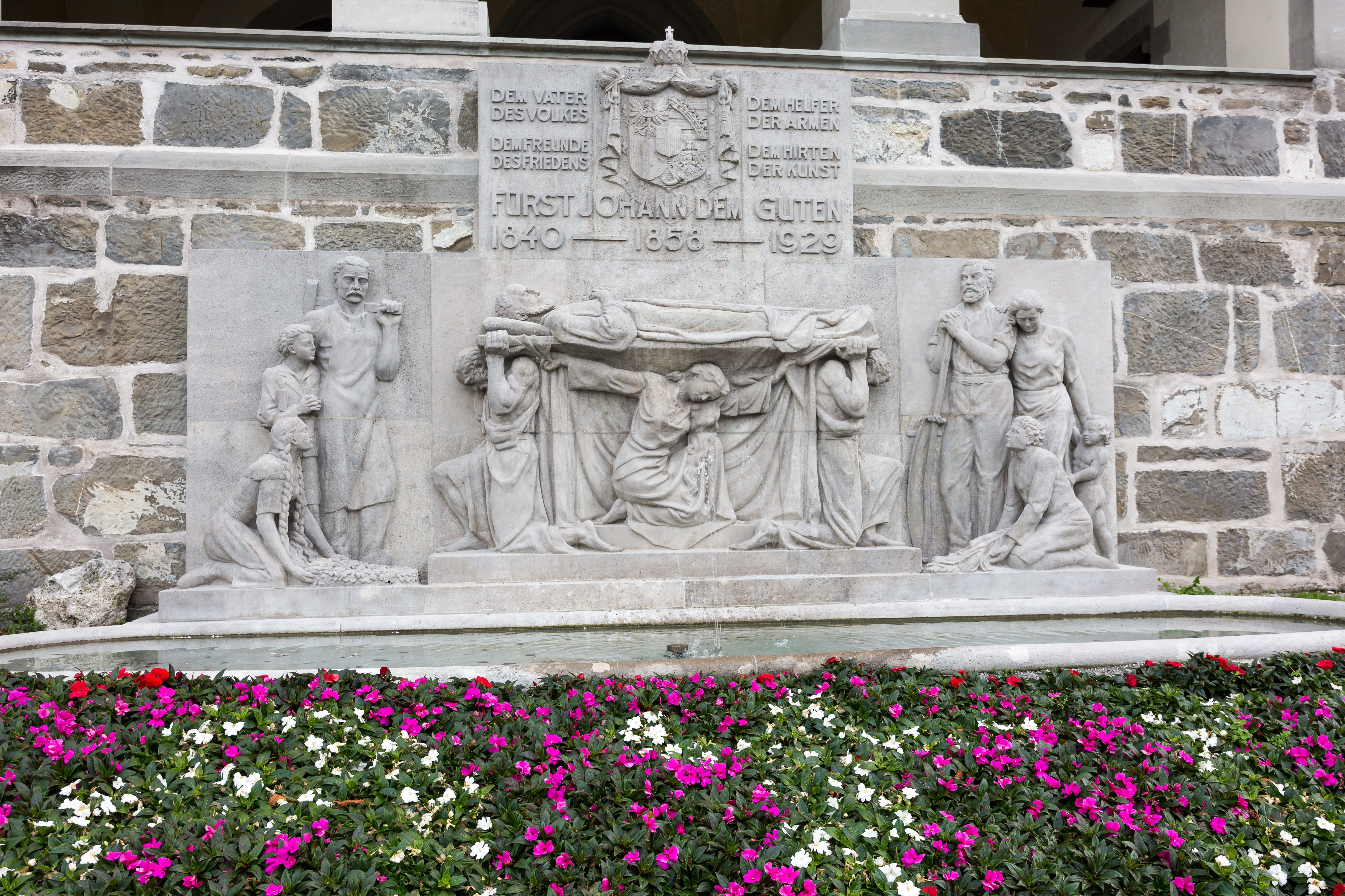 Fürst Johann monument, Pfarrkirche Schaan, Liechtenstein